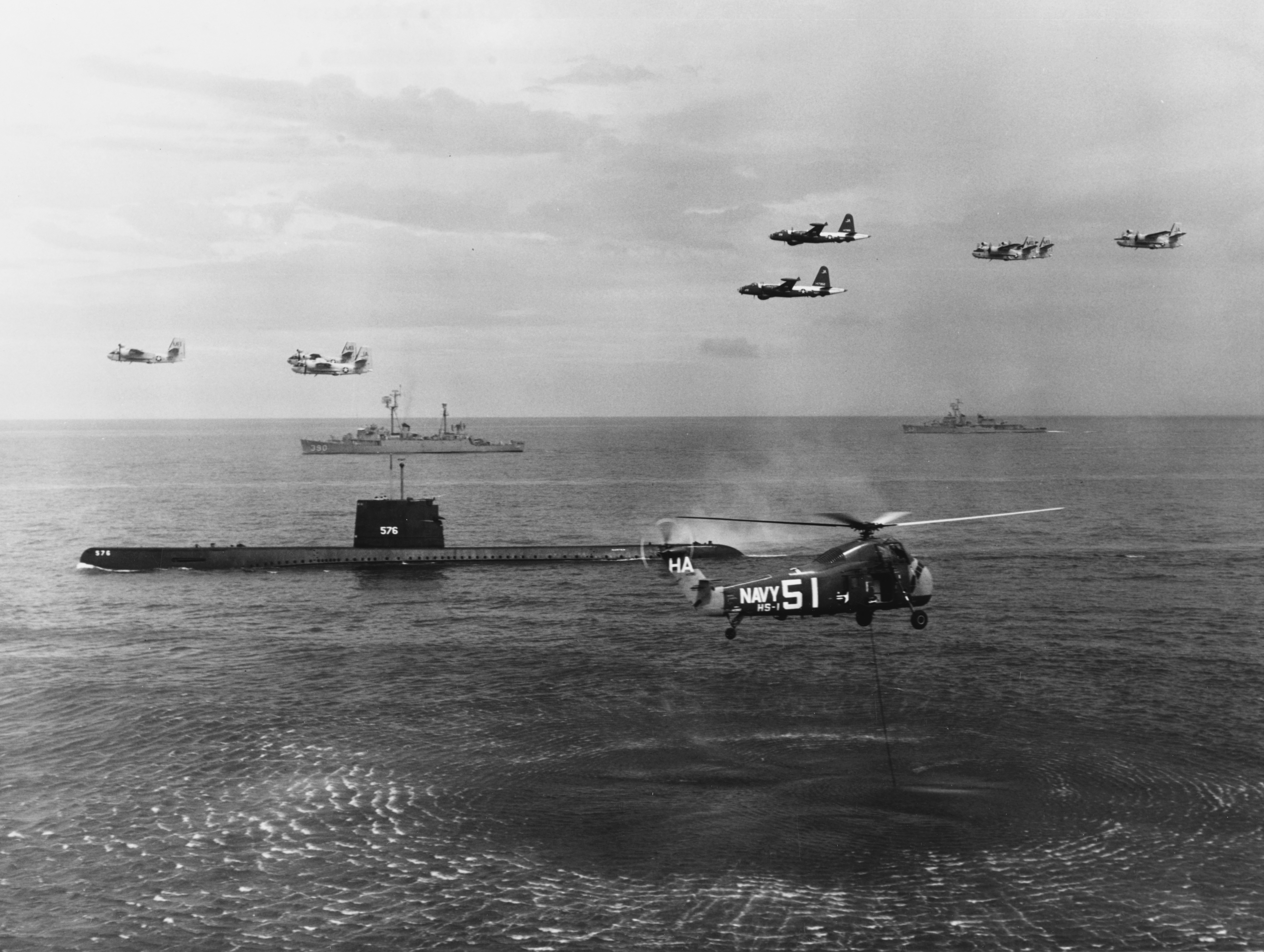 View of a U.S. Navy anti-submarine warfare demonstration during the inter-American Naval conference, 1-3 June 1960. An Sikorsky HSS-1 Seabat from Helicopter Anti-Submarine Squadron 1 (HS-1) uses its sonar while Grumman S2F-1 Tracker and Lockheed P2V-7 Neptune patrol planes fly over the submarine USS Darter (SS-576), the radar picket destroyer escort USS Calcaterra (DER-390), and the destroyer USS Hazelwood (DD-531). The demonstration was witnessed by Naval leaders of 10 American nations. Two of the Trackers and the three Neptunes were assigned to Air Test and Development Squadron 1 (VX-1), tailcode "JA". The other four Trackers were from Anti-Submarine Squadron 30 (VS-30). Note that Hazelwood has a, at that time still experimental, Gyrodyne DSN DASH drone on her flight deck.